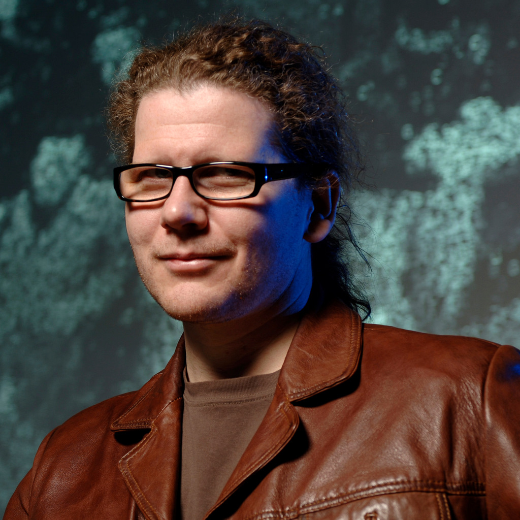 Charles Sandison in the Aurora Hall Oulu Finland